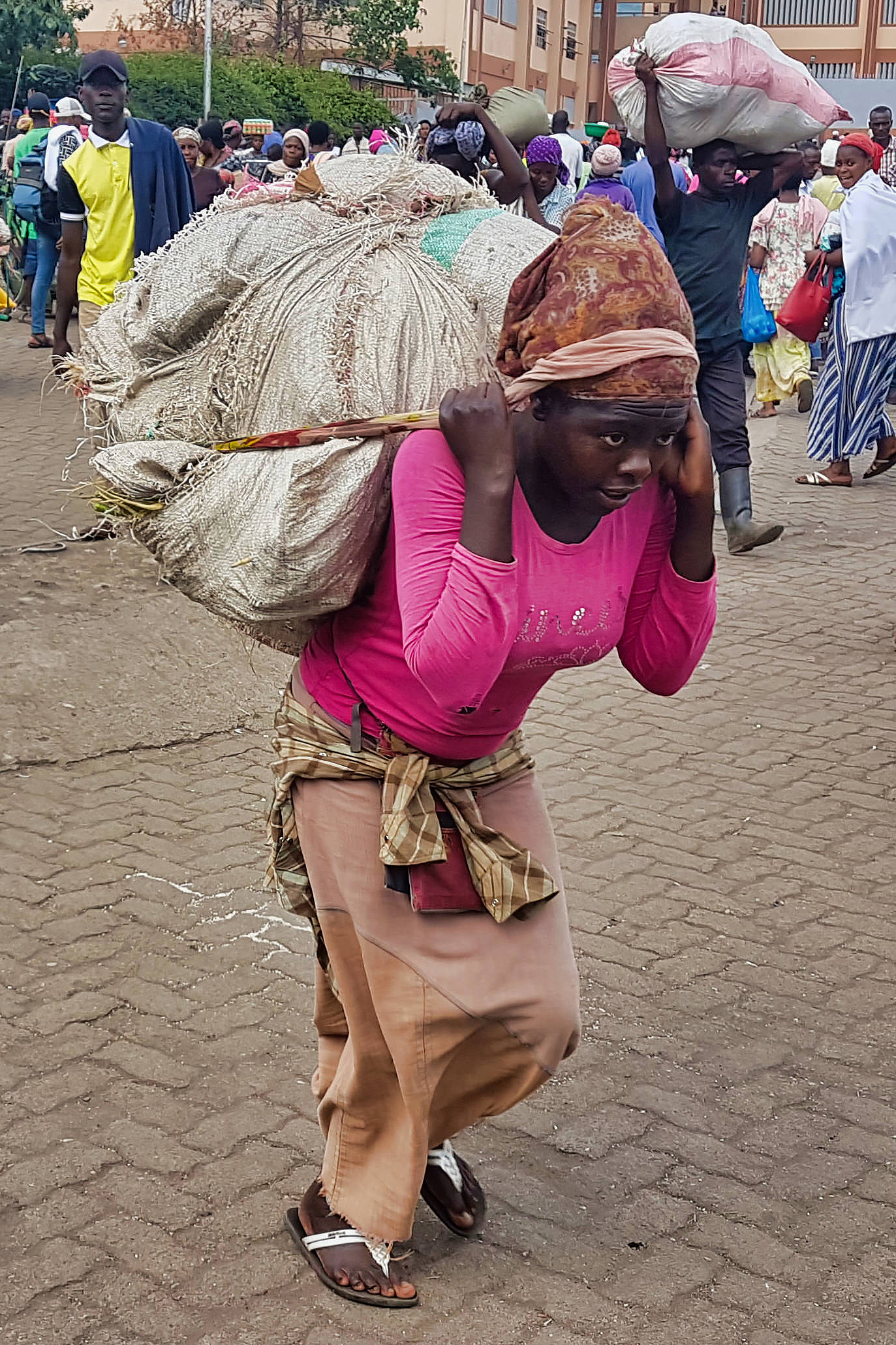 This image captures an example of small-scale cross-border trade that is prevalent at the Rwanda-DRC border and elsewhere in Africa. This is an image with the theme "Africa on the Move or Transport" from: Rwanda